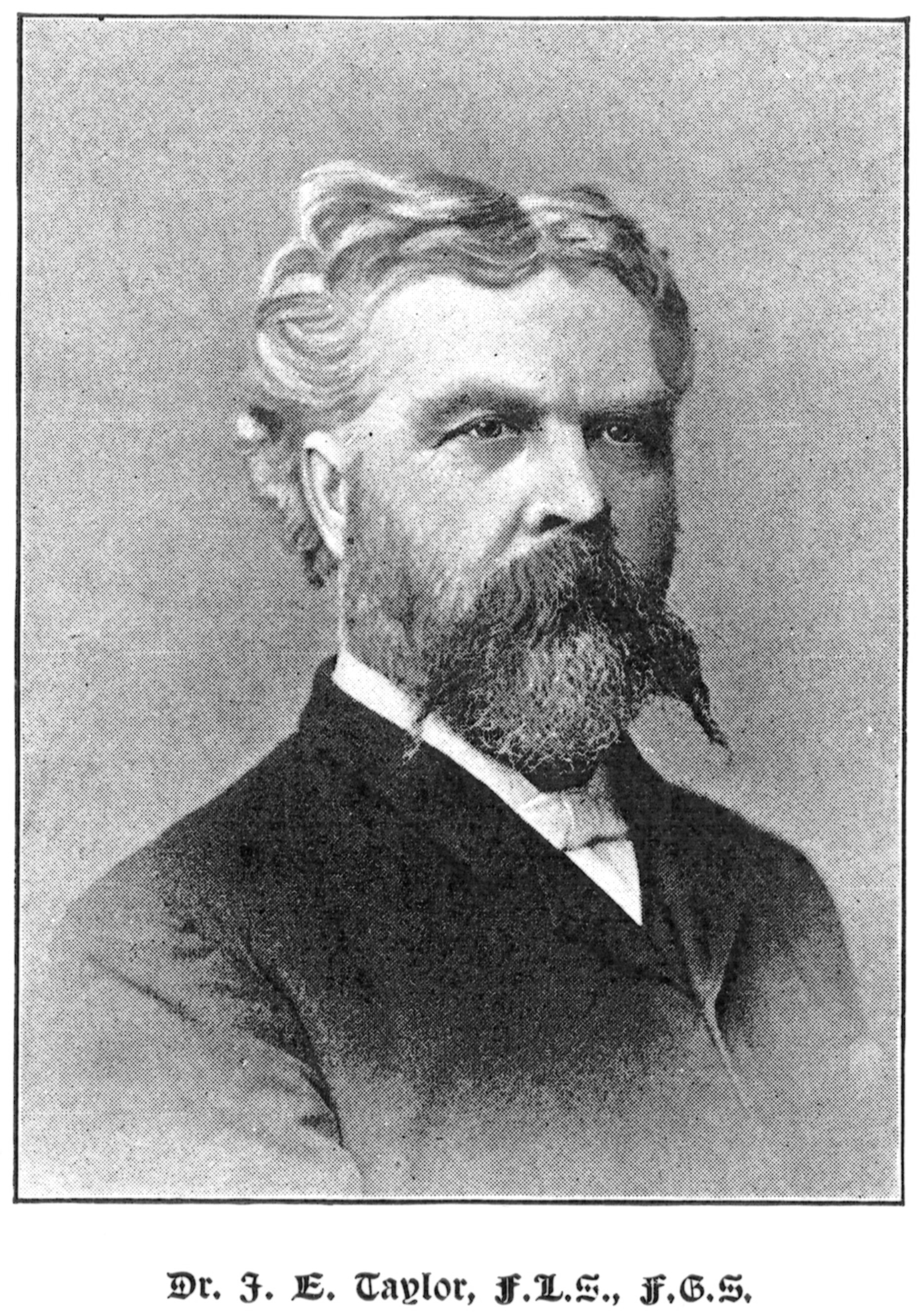 Portrait of John Ellor Taylor published August 1893 in Suffolk Celebrities